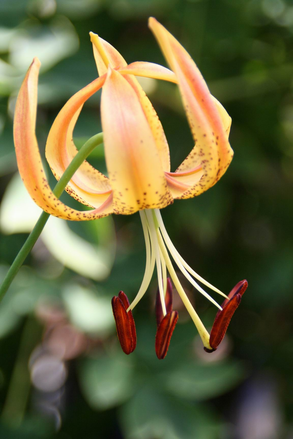 Lilium pyrophilum Flower Lilium pyrophilum